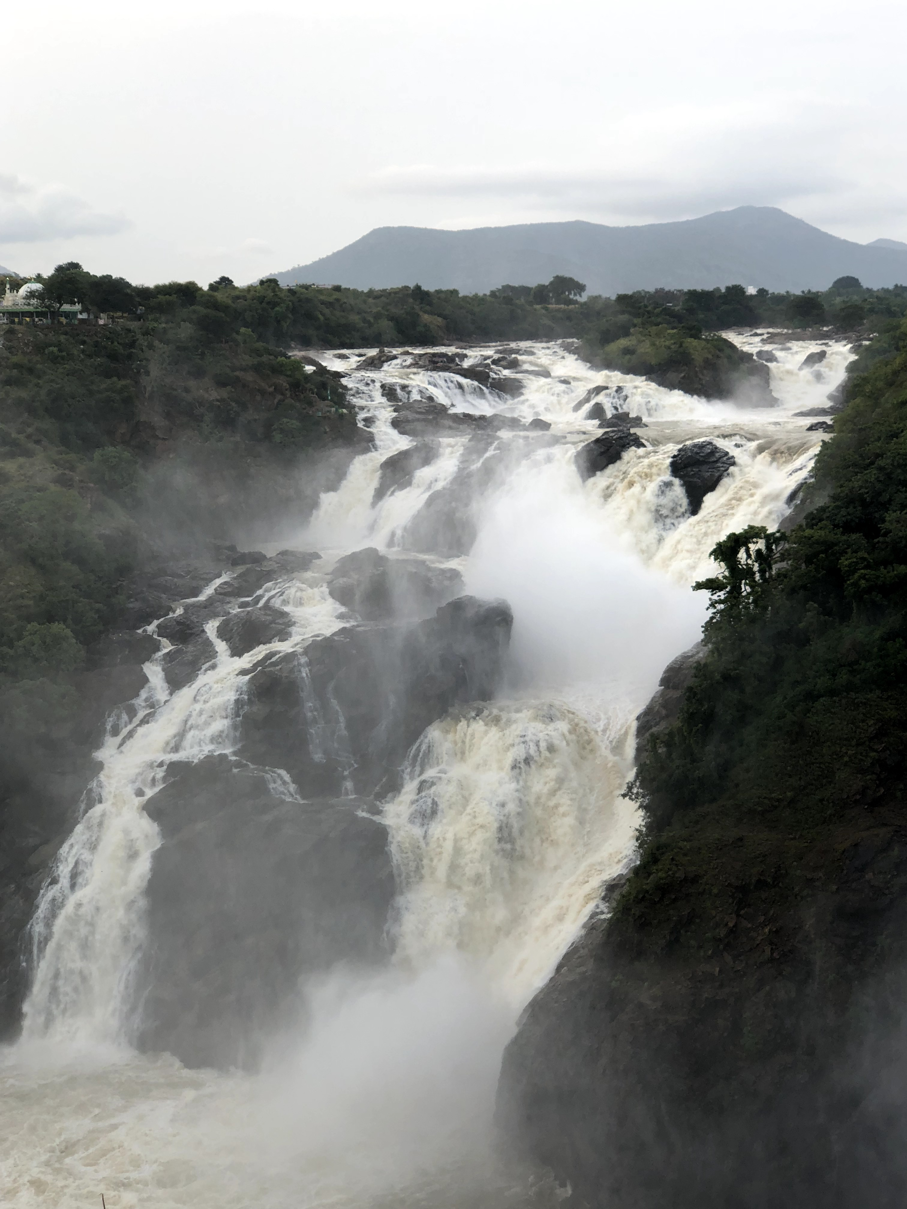 Shivanasamudram falls majestic view just after monsoon